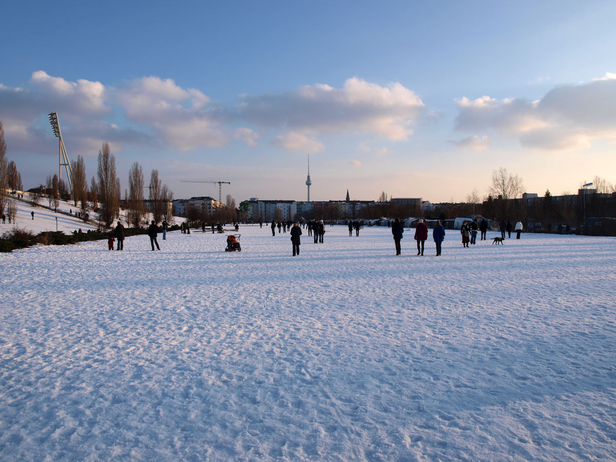 Mauerpark Berlin in February 2010